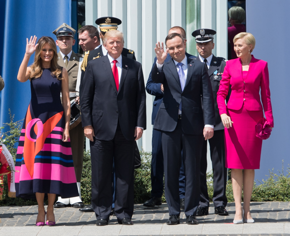 President Donald J. Trump, First Lady Melania Trump, President Andrzej Duda, and First Lady Agata Kornhauser-Duda | July 6, 2017 (Official White House Photo by Andrea Hanks)